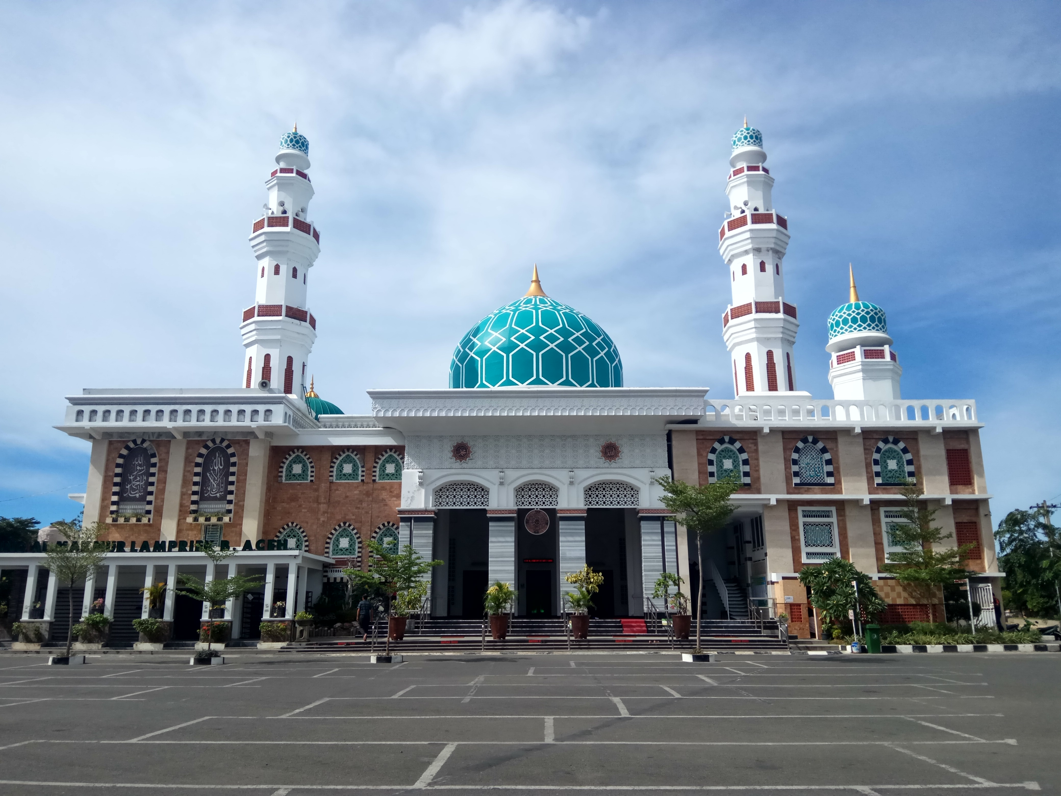 Masjid Oman di Aceh